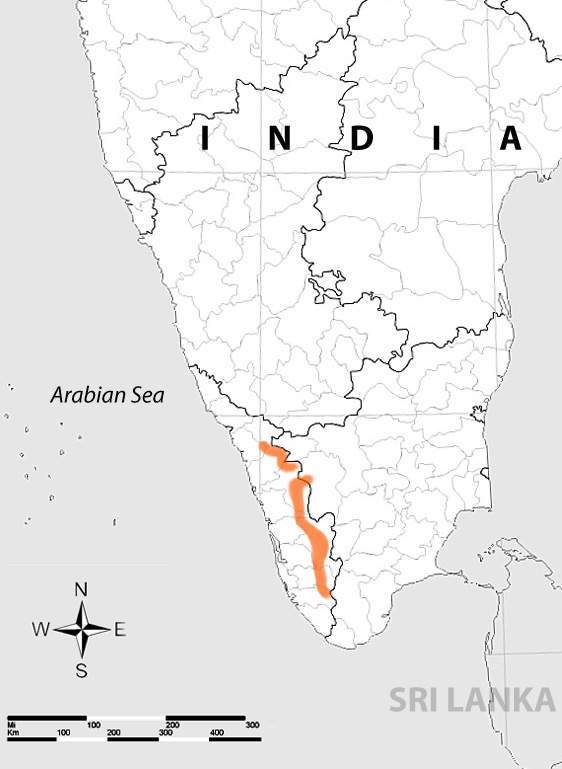 Distribution Map of Nasikabatrachus sahyadrensis